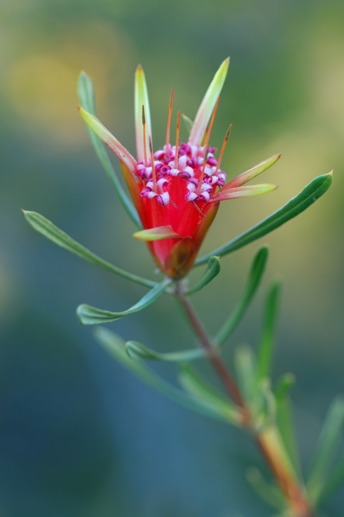 Lambertia formosa photographed at the University of California Santa Cruz Arboretum